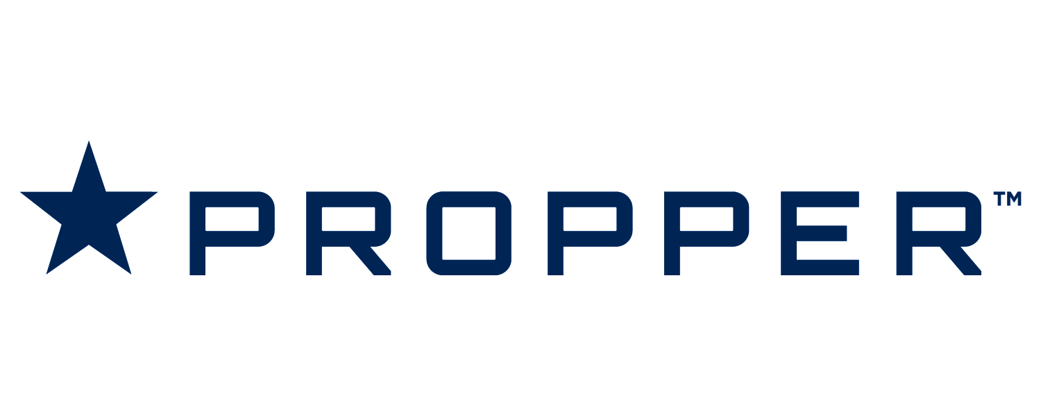 Propper logo